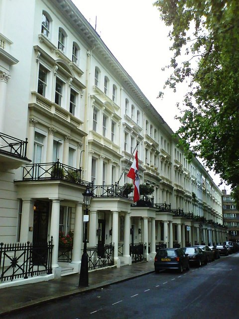 Rutland Gate, SW7 This is a quiet square just off Kensington Road, with elegant terraced houses. The gardens in the centre of the square are for the use of residents only (all you see of them here are a few overhanging trees). The first house shown is number 27, the United Kingdom's National Bahá'í Centre. You will find out more about it by clicking this link The house next door, at 28, is the Austrian Cultural Forum - the Austrian State flag (as opposed to the Austrian Civil flag -- see more here ) is showing.